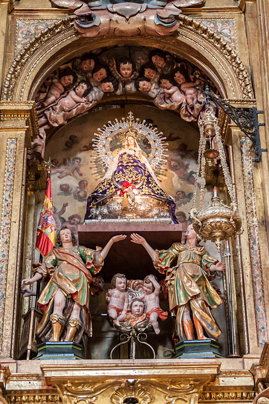 Virgen de la Fuencisla. Patrona de Segovia.